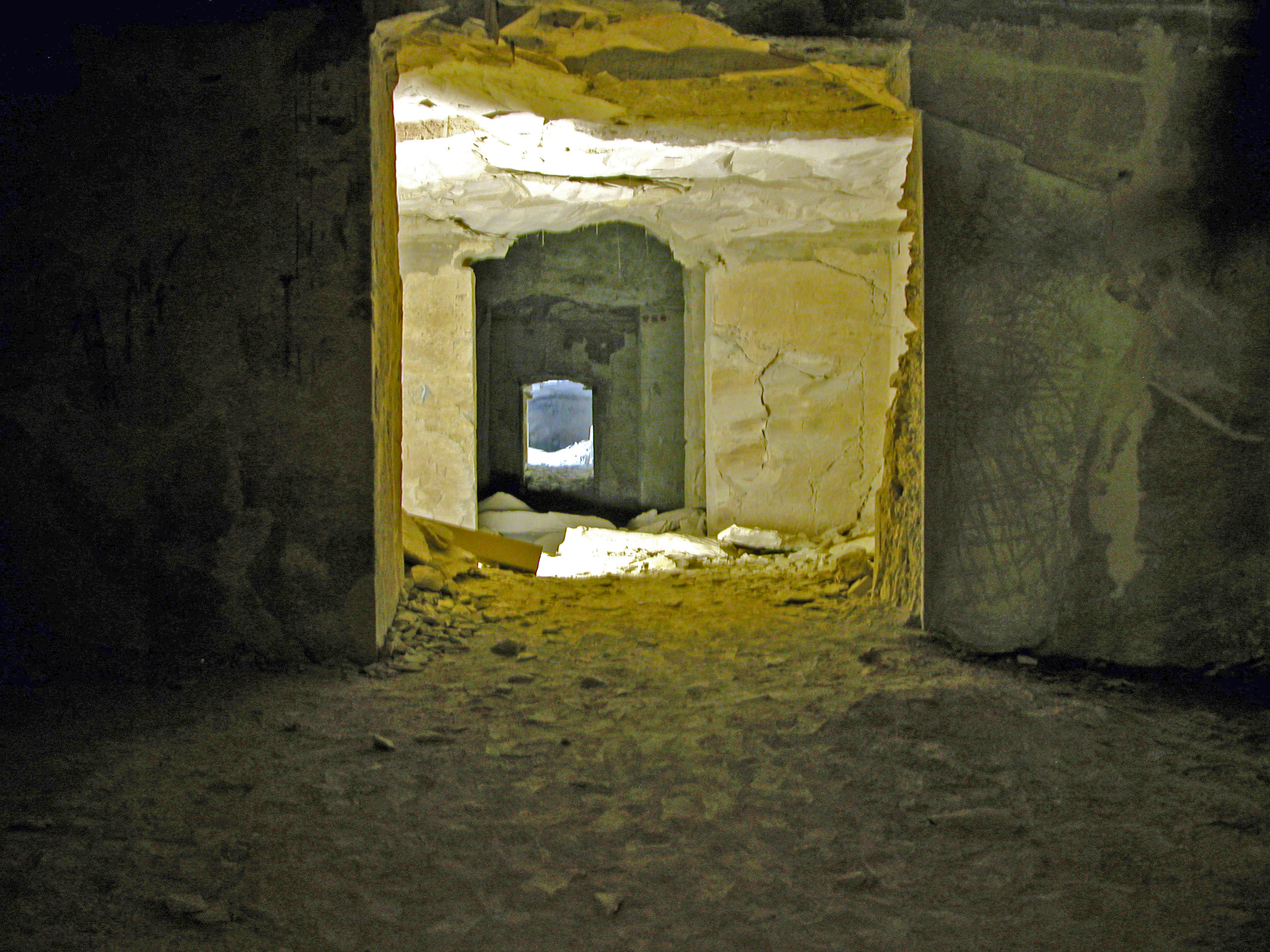 Tomb of Rameses II, the entrance to the fourth corridor which descends further into the tomb towards a vestibule and the burial chamber, a barrier closes the rest of the tomb to visitors. Valley of the Kings, Egypt